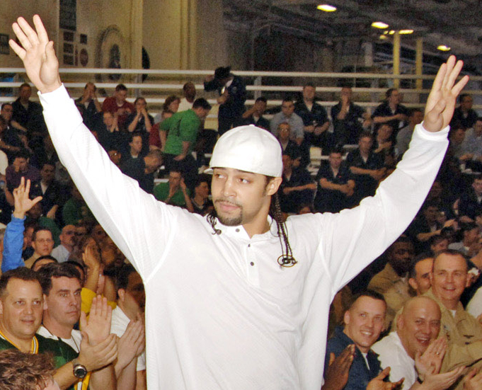 070204-N-2880M-310 Atlantic Ocean - Green Bay Packers running back Noah Herron waves to crewmembers in the hangar bay while being introduced as part of the Super Bowl pre-game festivities aboard Nimitz-class aircraft carrier USS Harry S. Truman (CVN-75). Noah and four other Green Bay Packers, along with five members of the New England Patriots cheerleaders, are the distinguished guests for Truman's Super Bowl XLI extravaganza. Truman is currently underway conducting operations in the Atlantic Ocean.